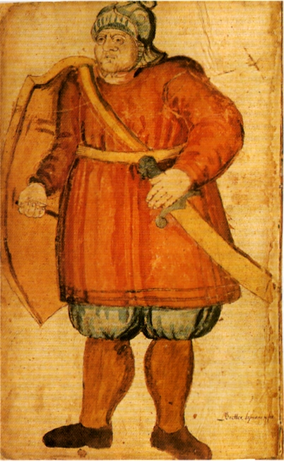 Grettir, from Grettis saga, all burly and ready to fight. From the en:17th century Icelandic manuscript AM 426 fol., now in the care of the Árni Magnússon Institute in Iceland.